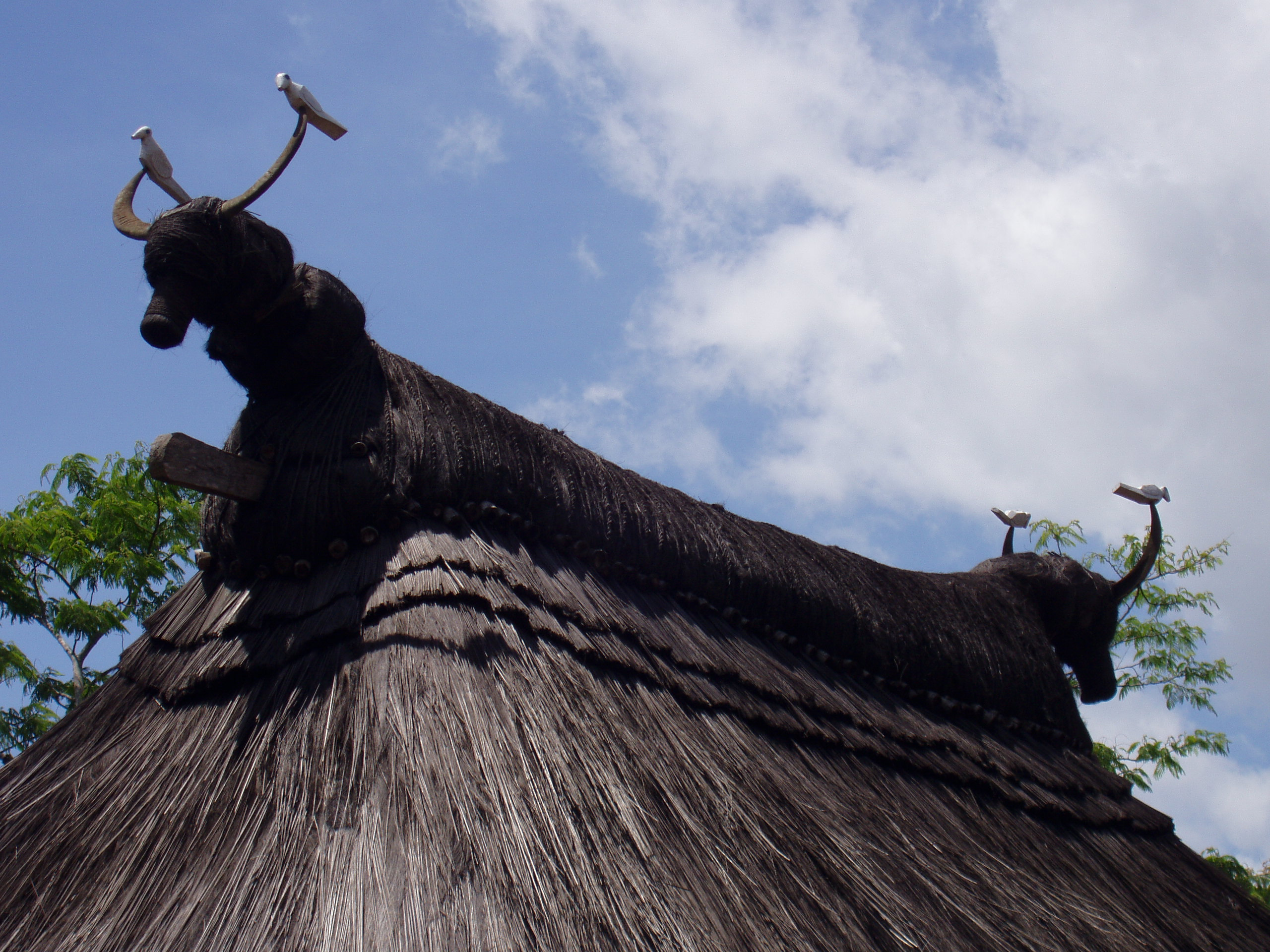 Watisoba